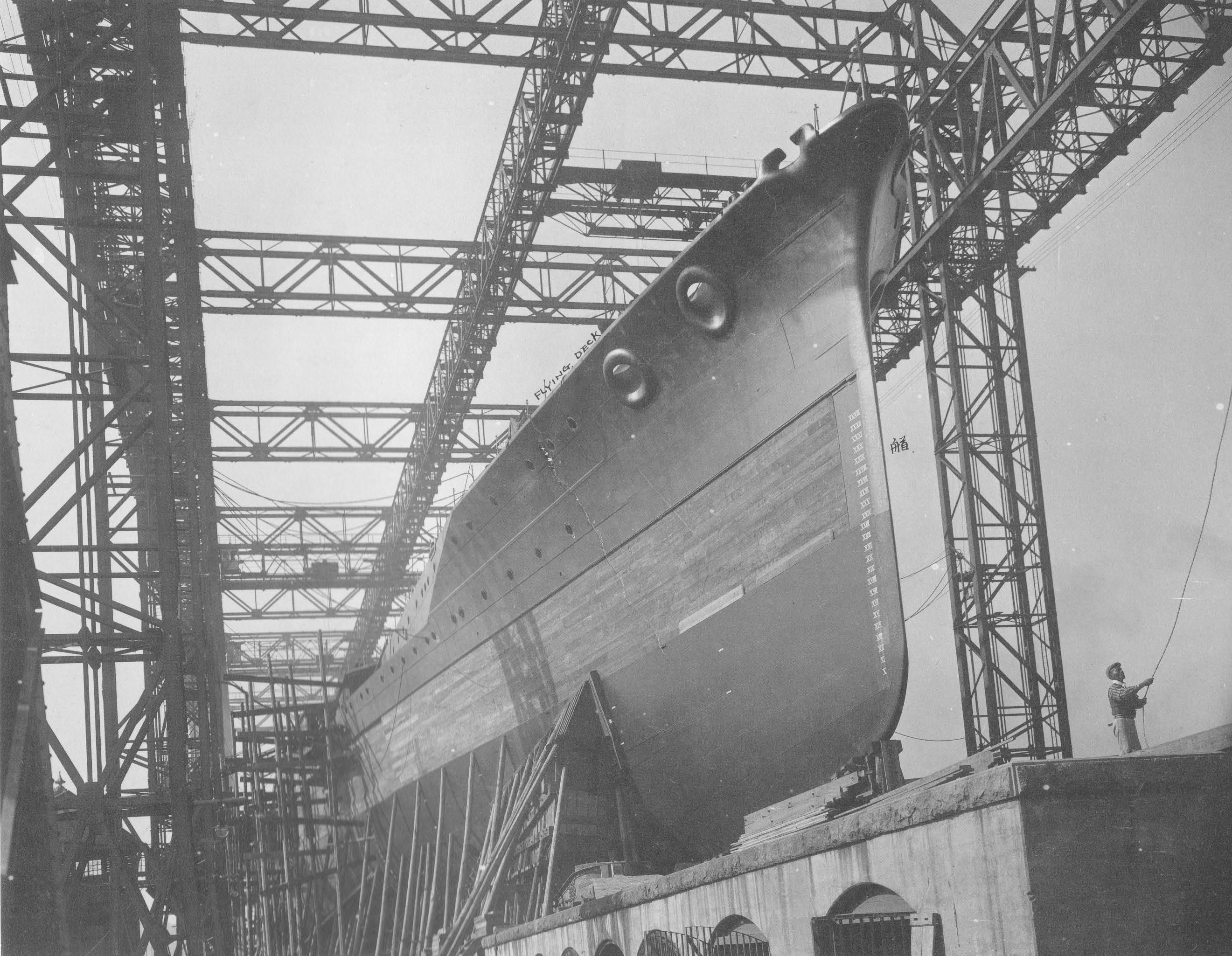 Imperial Japanese Navy battleship Yamashiro under construction in the #2 dock at Yokosuka, Japan.